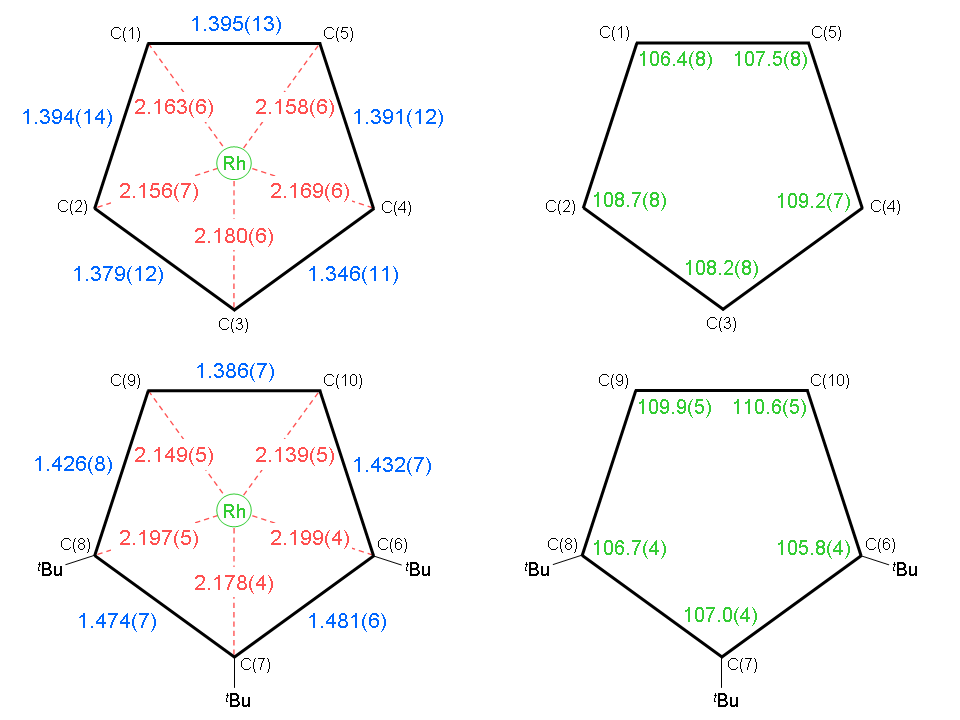 This figure is based on data presented in the following paper and also provided in its supplementary materials document: Part of the diagram is adapted from a Figure 4 in that paper, the rest is my own work. It was prepared using Microsoft PowerPoint 2003. Given that the data themselves are not copyright, I release the diagram into the public domain.